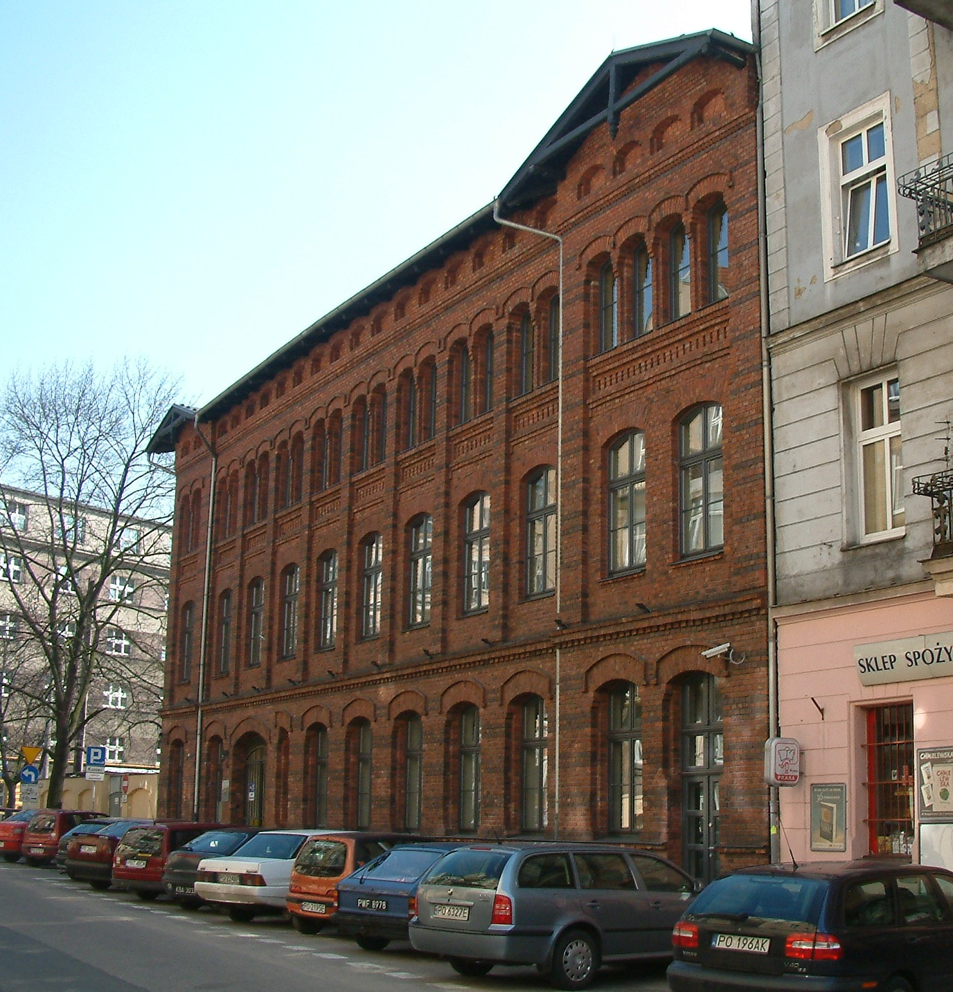 Zeyland's Factory in Poznań